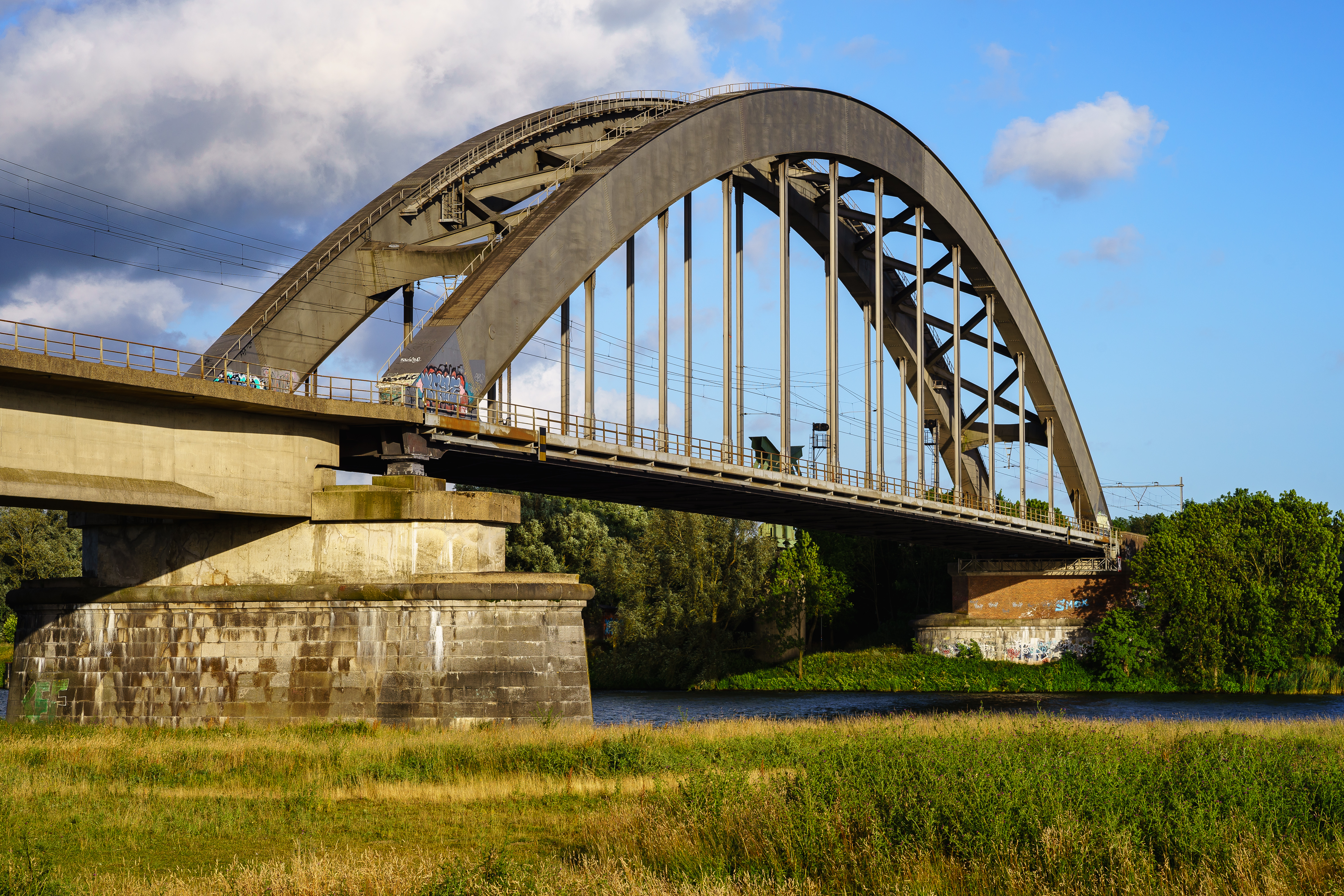 A railway bridge in the Netherlands, very probably the Kuilenburgse spoorbrug near Culemborg.Original description: “Sony A7ii met Summarit-M 75mm *tweaked*”.